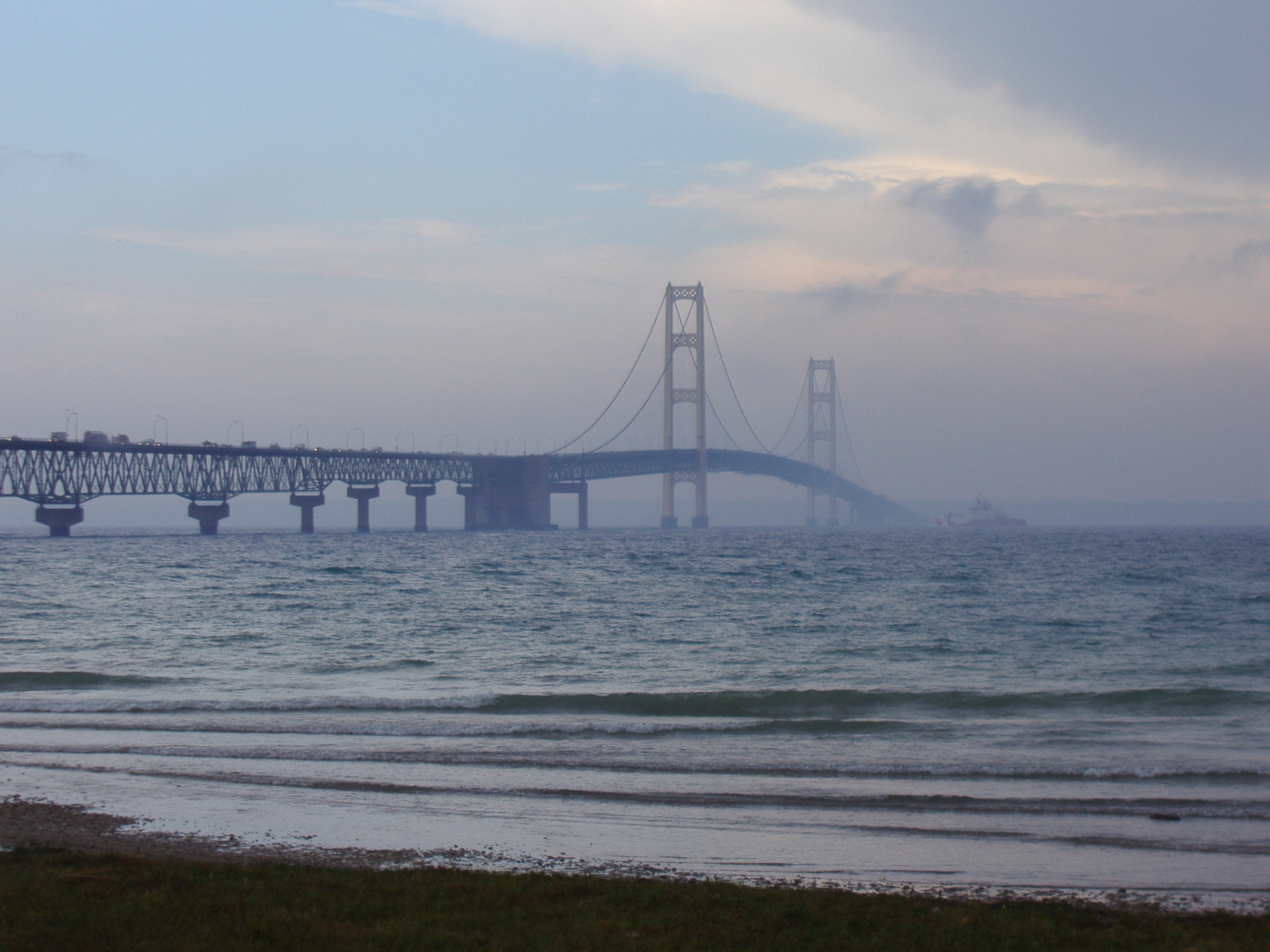 The Mackinaw Bridge, connecting Upper and Lower Michigan.